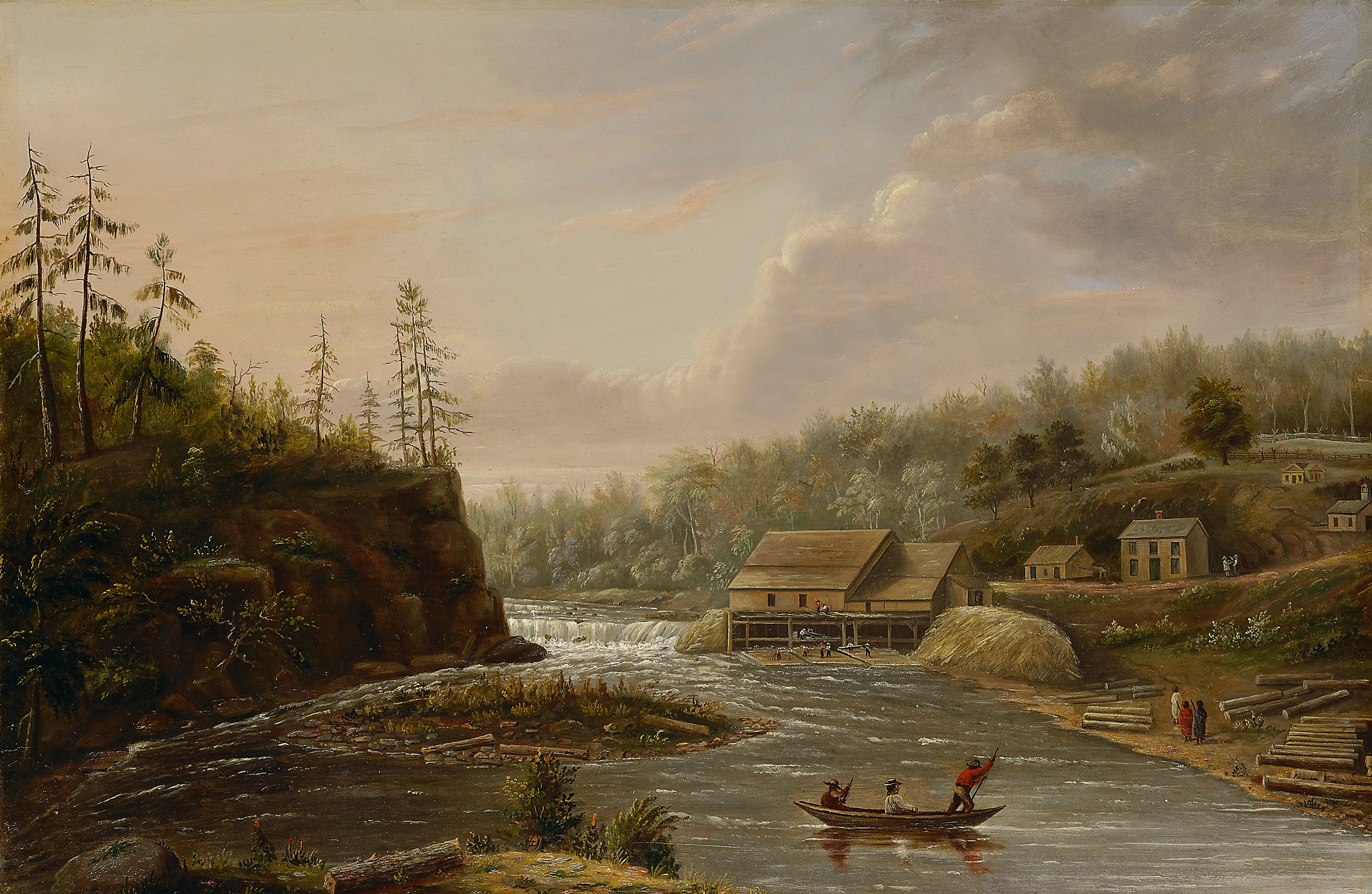 Minnesota landscape